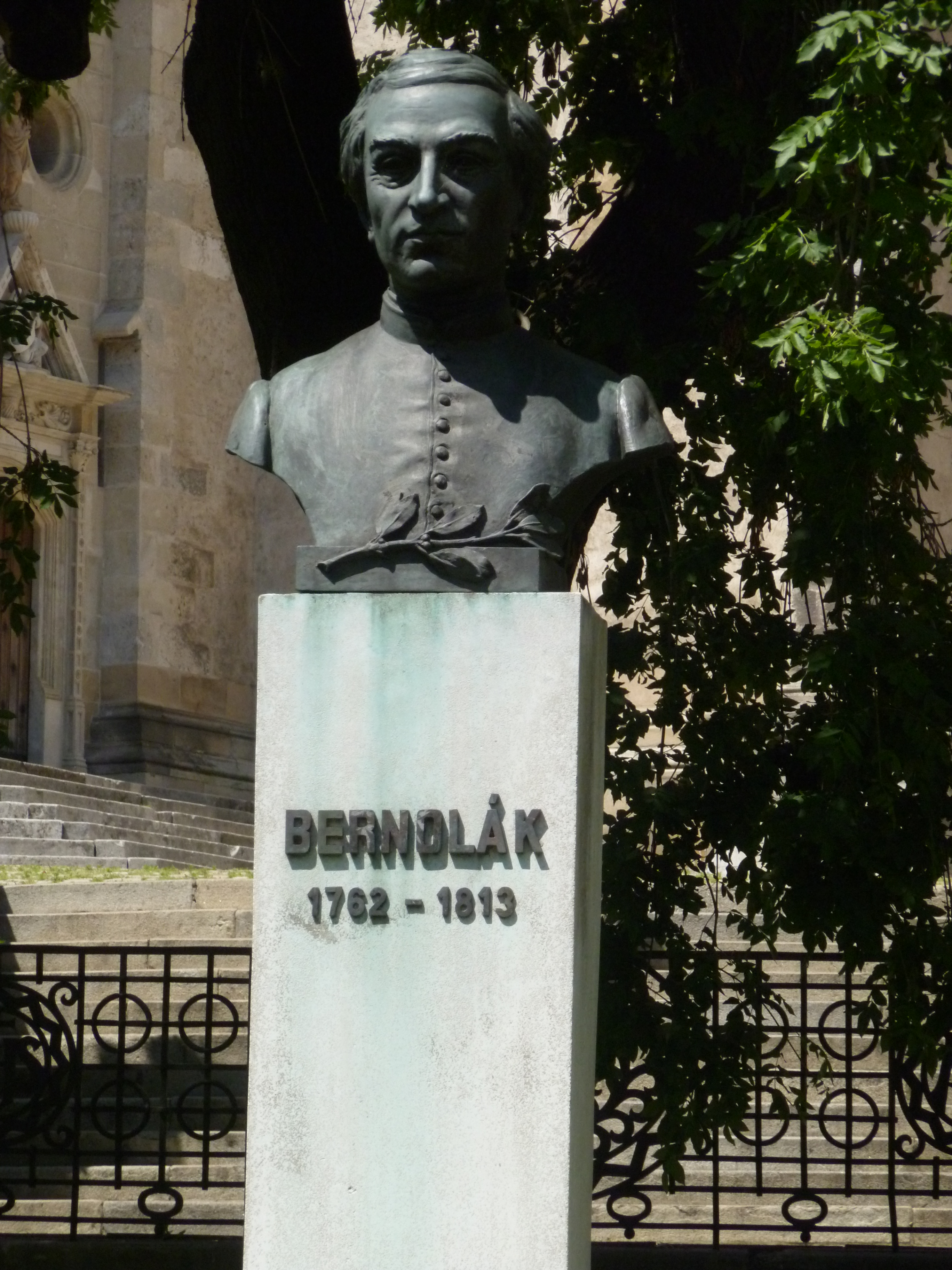 Bust of Anton Bernolák (1762-1813) who was a Slovak linguist and Catholic priest and the author of the first Slovak language standard; Bratislava, Slovakia